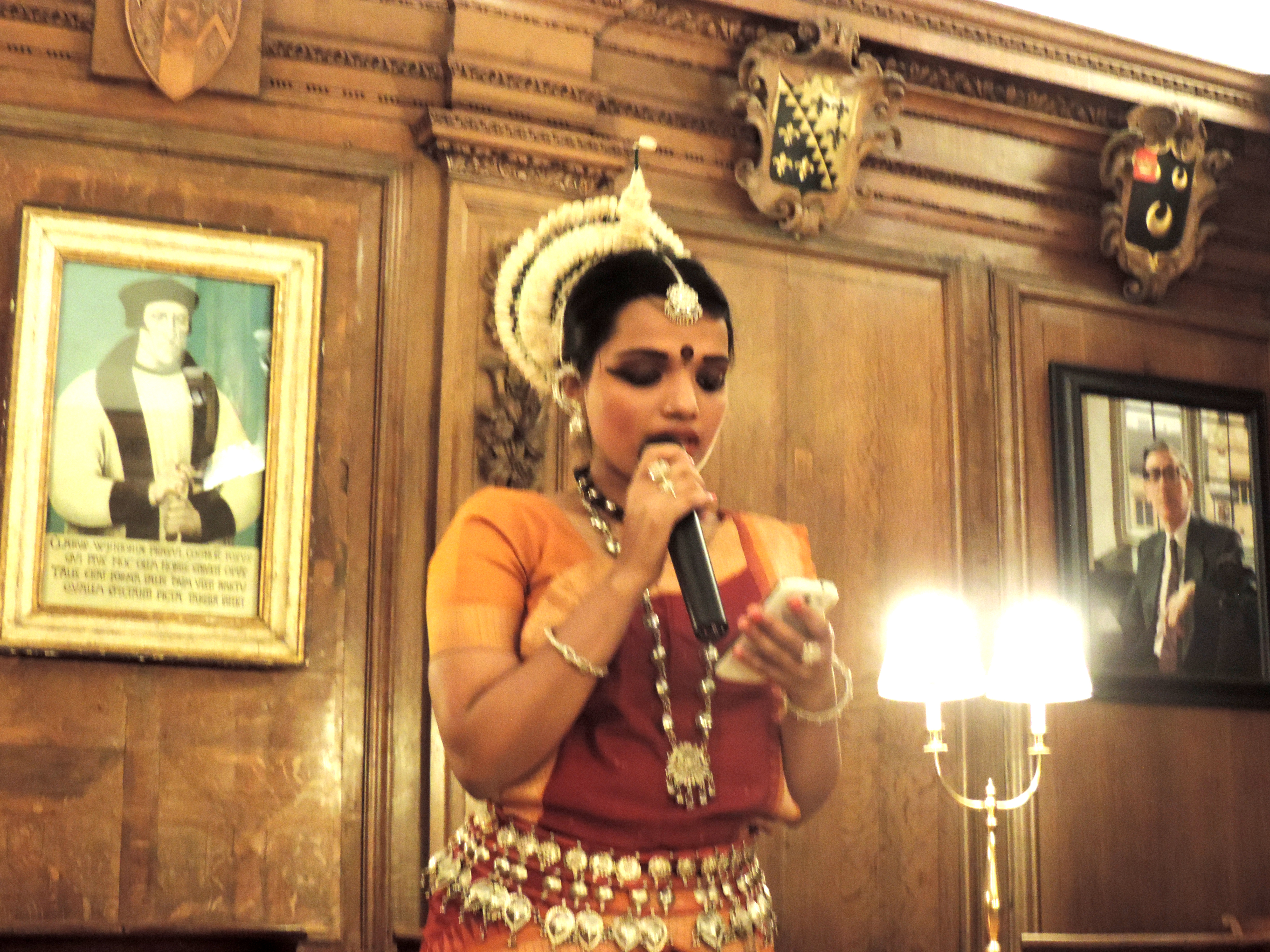 Founder-Director of Oxford Odissi Centre Baisali Mohanty introducing Odissi dance to an audience at the historic Corpus Christi Hall, Oxford University, while announcing opening of the centre from 2016.